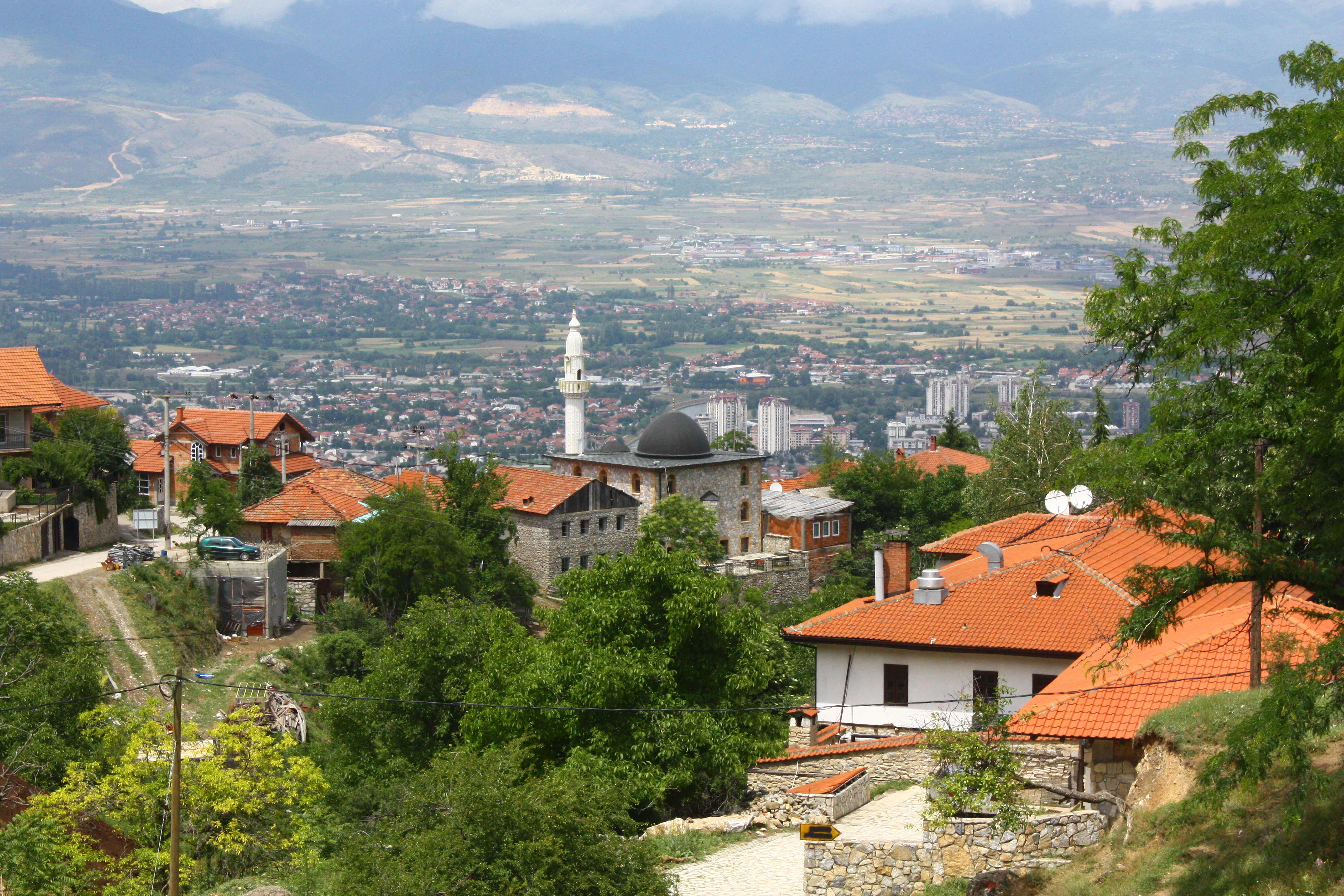 Gorno Nerezi near Skopje, Macedonia